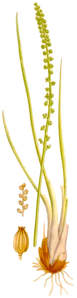 Triglochin maritima (syn. T. maritimum)